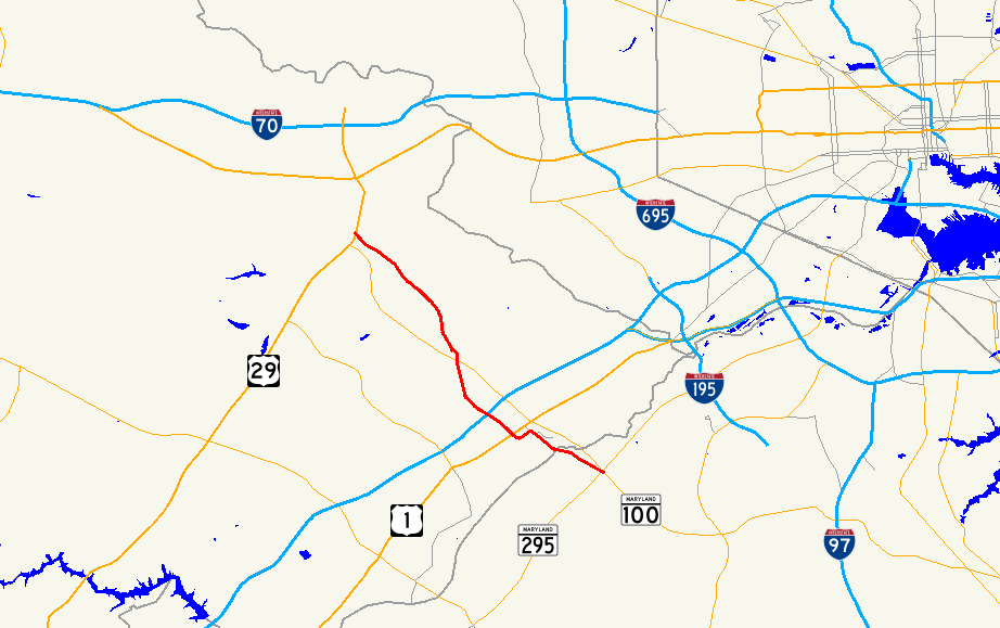 Map of Maryland Route 103